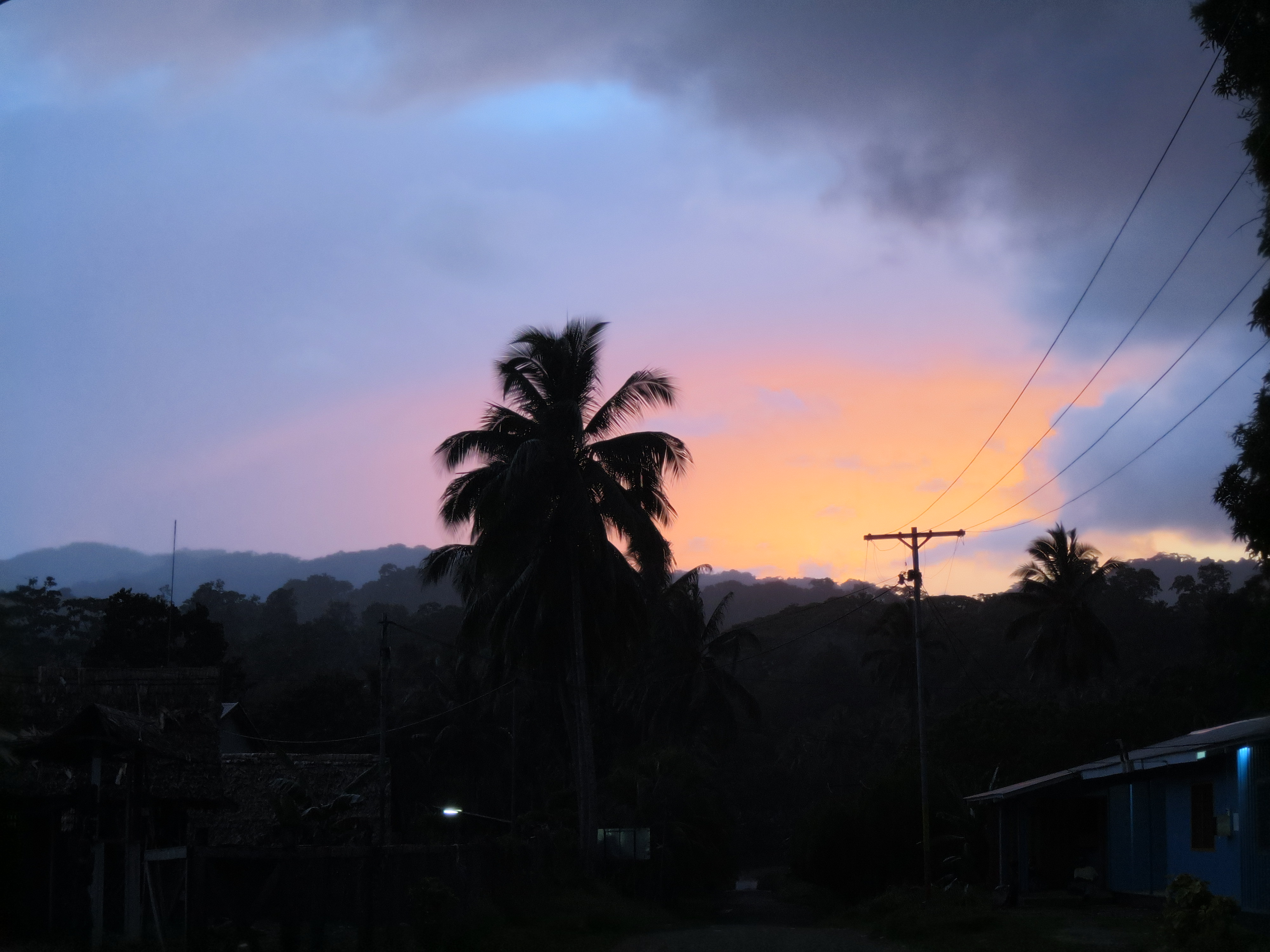 This photograph was taken one evening looking from the front entrance of Kirakira Hospital.